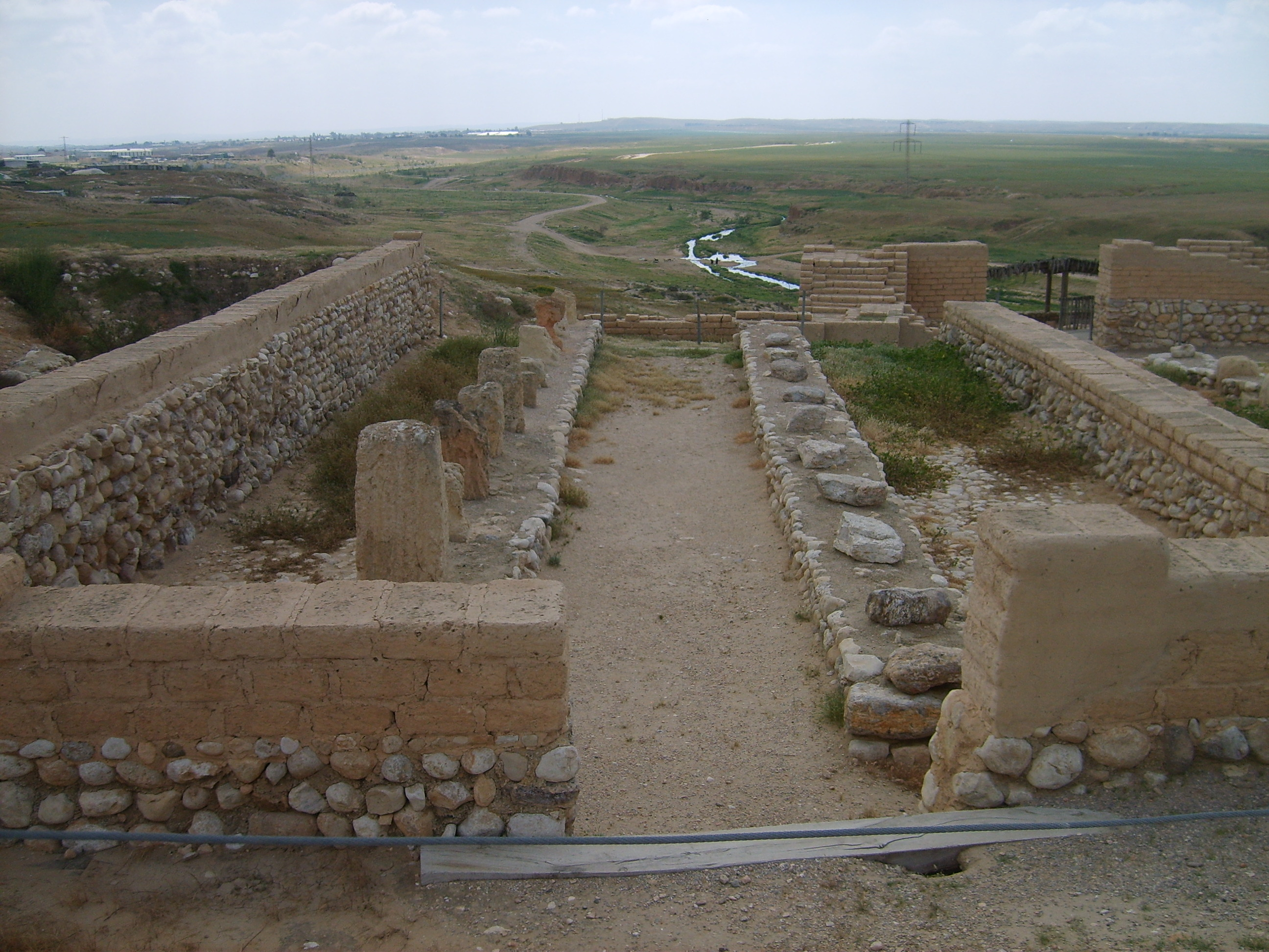 One of the storehouses found at Tel Be'er Sheva